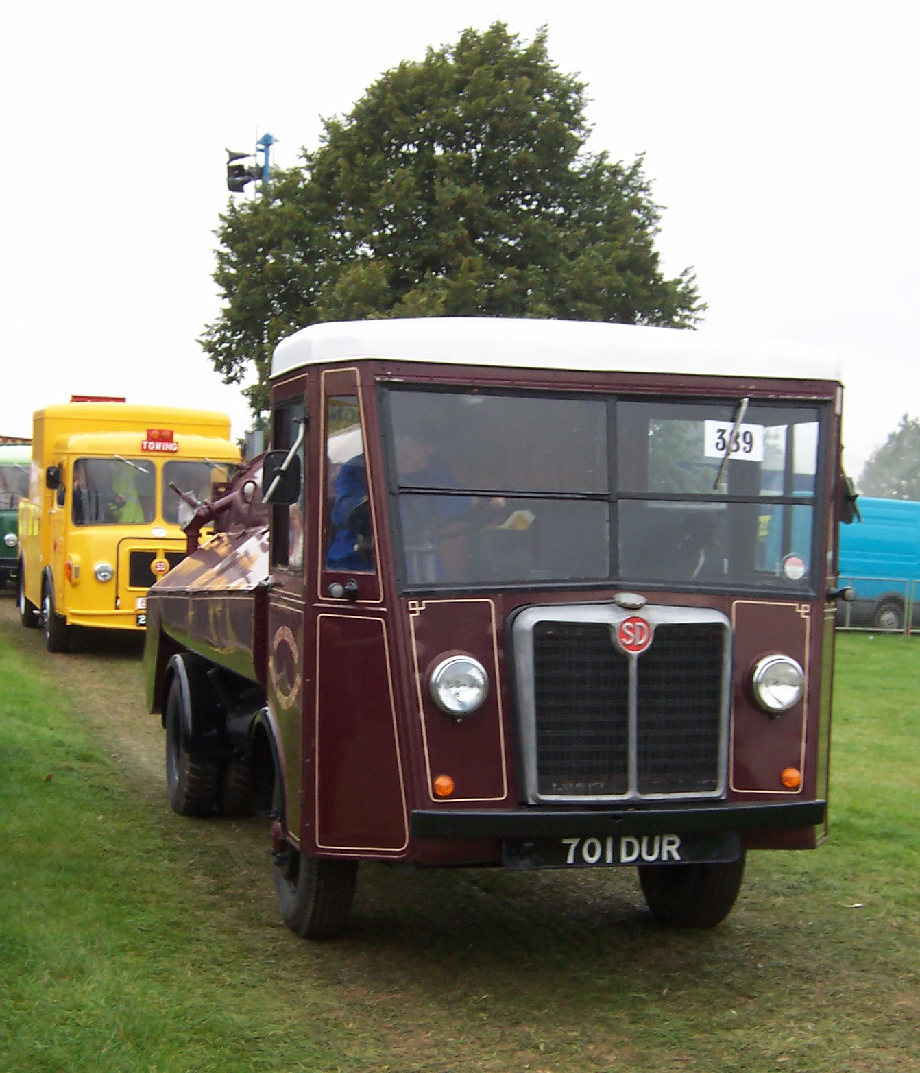 701 DUR 'W' type tanker at Old Warden Steam Rally 2005.